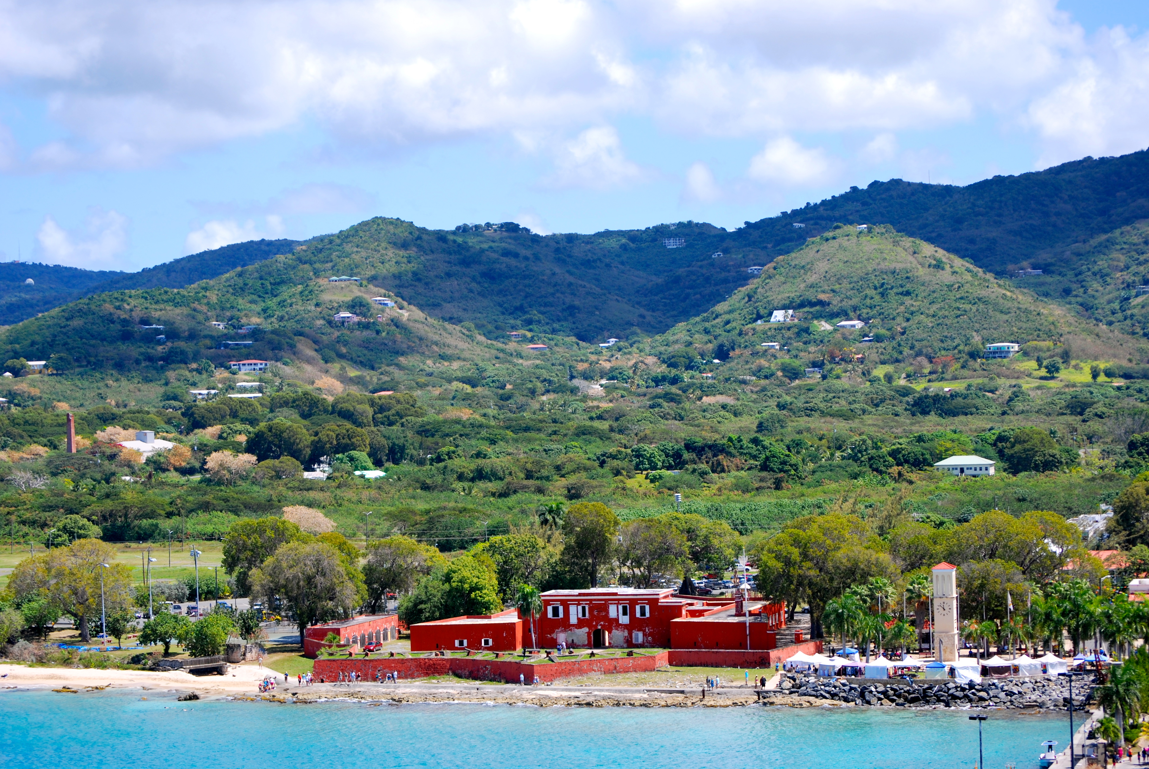 Fort Frederik near downtown Frederiksted, in the Frederiksted Historic District. Located on the island of St. Croix in the United States Virgin Islands.